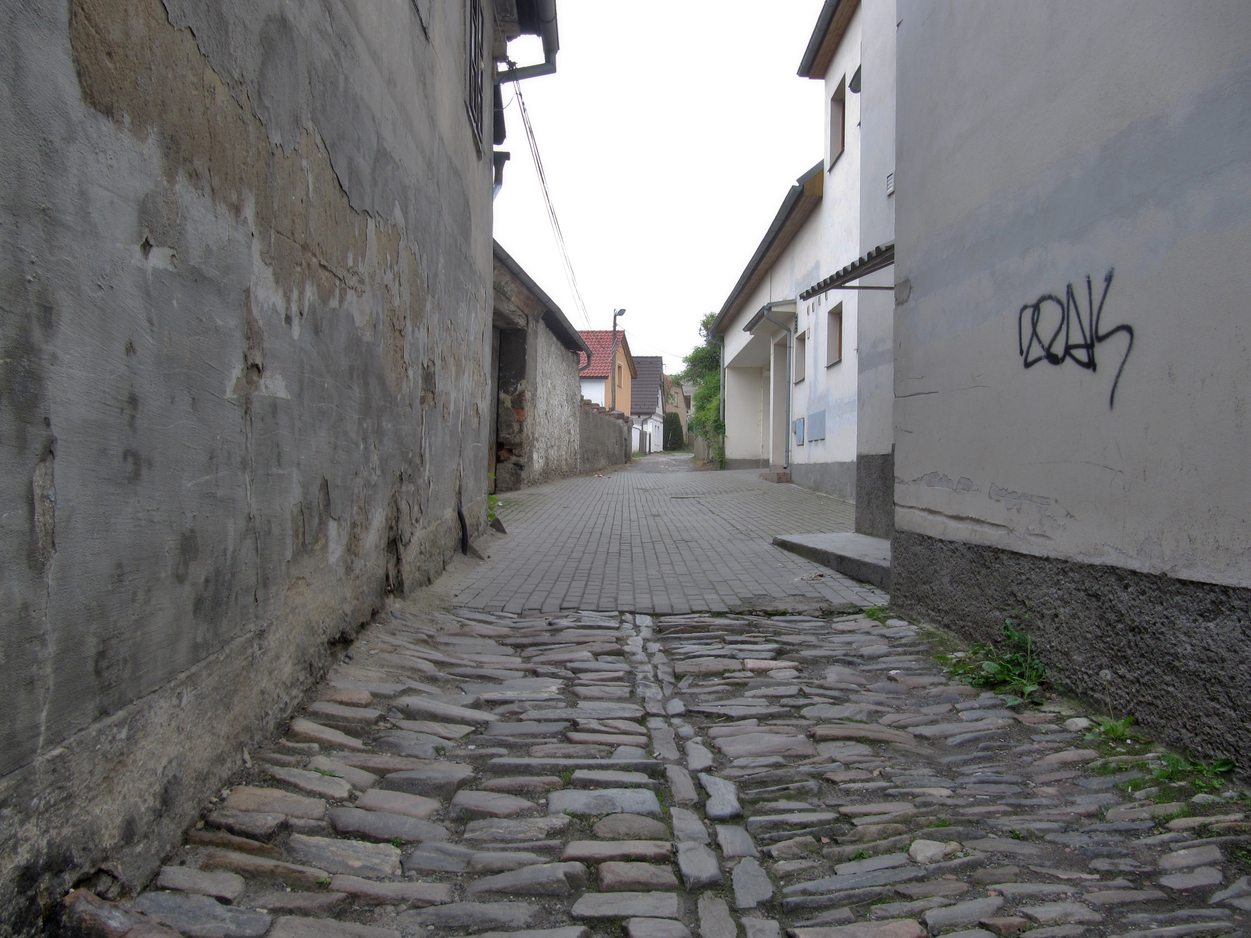 Zásmuky, Kolín District, Czech Republic. Polákova street.